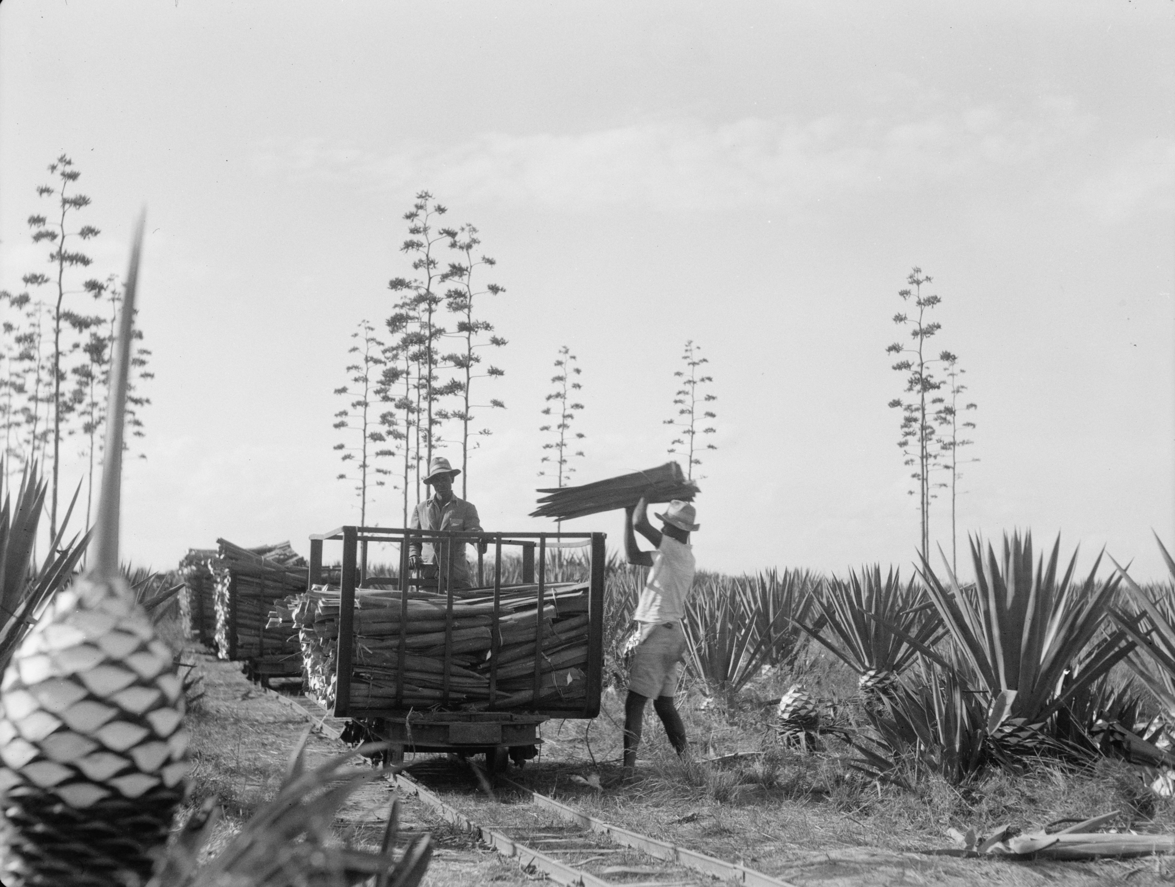 Title: Plantations in Kenya Colony. Loading sisal on narrow gauge R.R. [i.e., railroad] car Abstract/medium: G. Eric and Edith Matson Photograph Collection Physical description: 1 negative